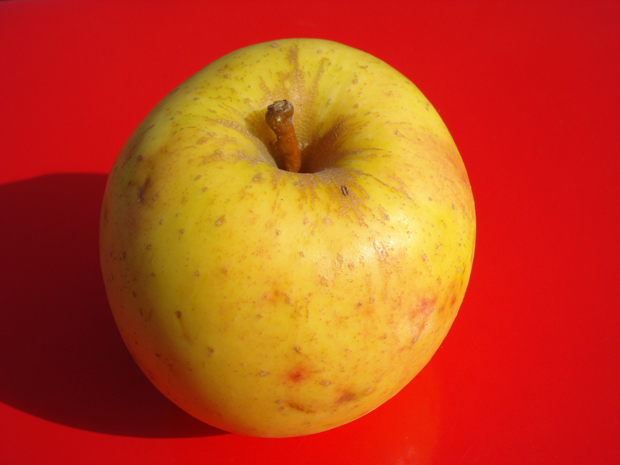 "Golden delicious clon B" apple cultivar, grown in Medjimurje County, northern Croatia